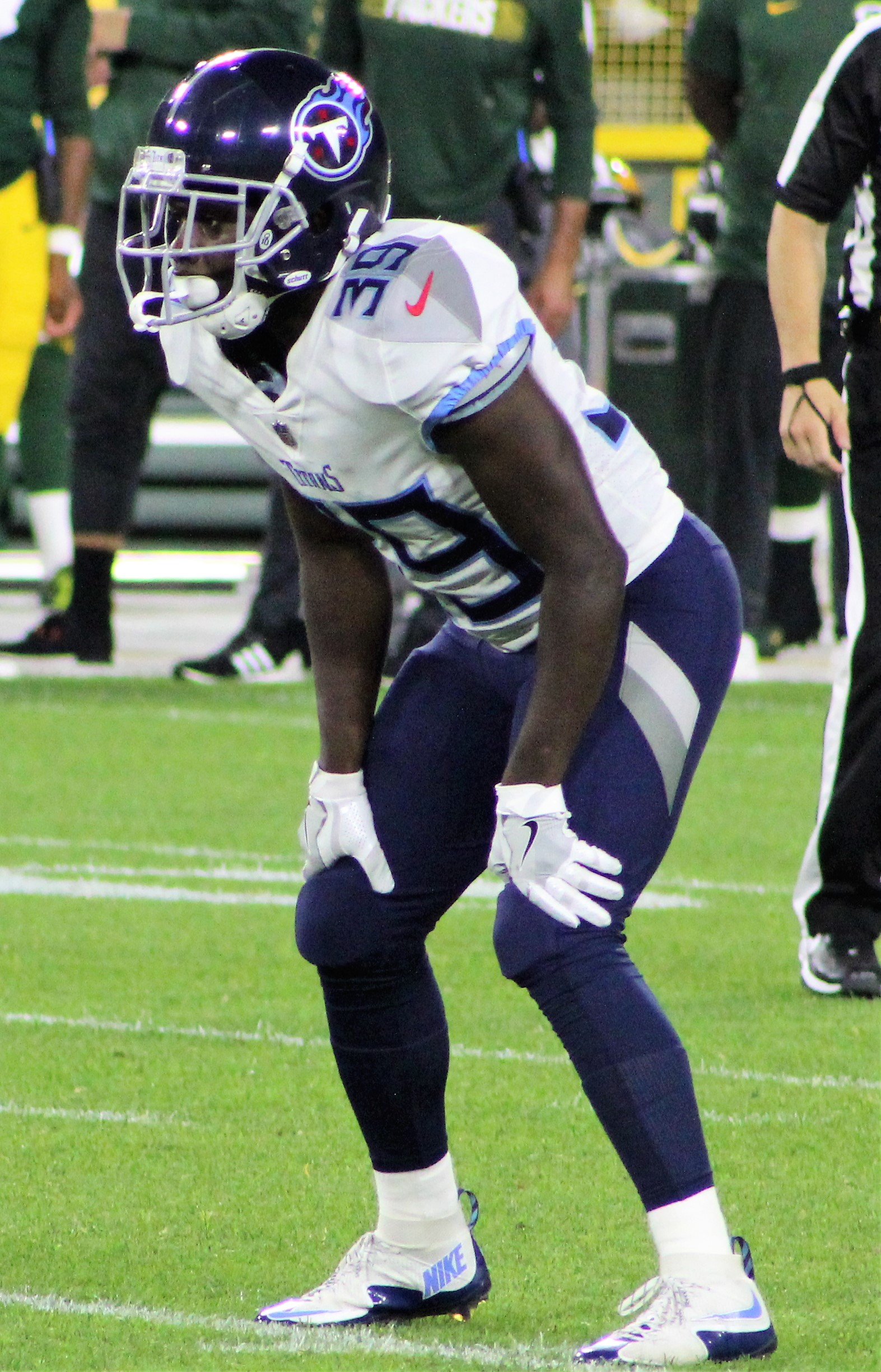 Dalyn Dawkins, Tennessee Titans at Green Bay Packers (Preseason), August 9, 2018